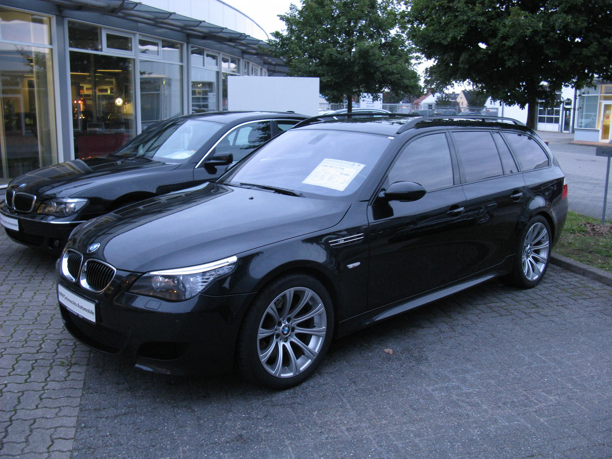 BMW M5 Touring